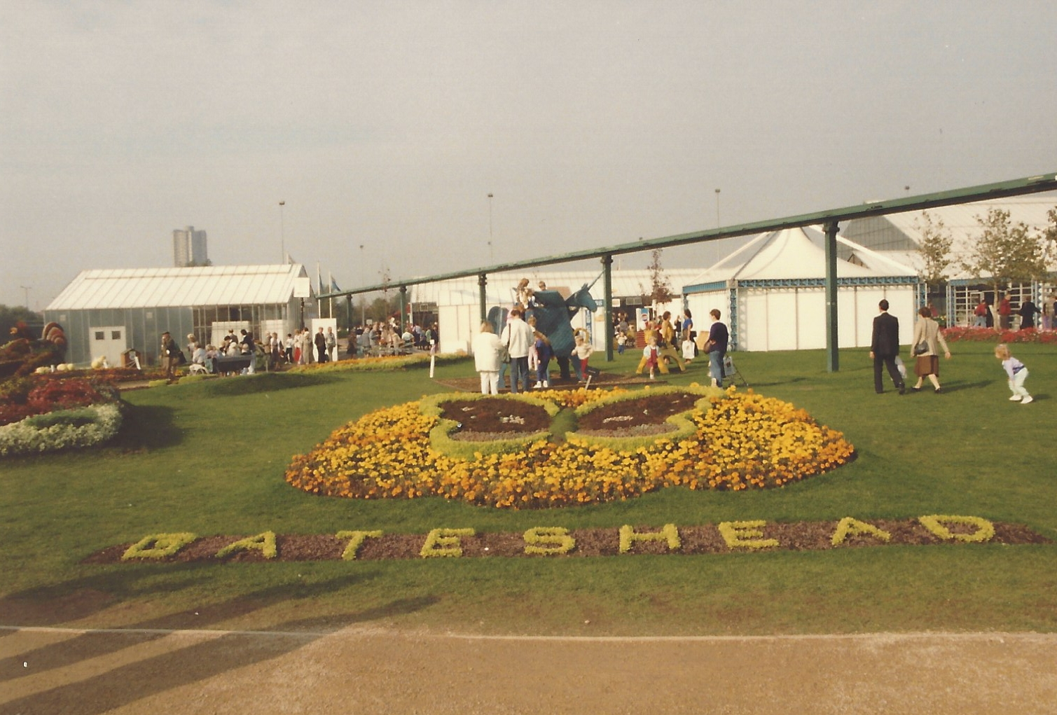 Gateshead Garden Festival, held in Gateshead between 18 May and 21 October 1990. This is a colour print photo which has been scanned and colour adjusted. Note I visited the festival on 2 or 3 occasions and I am not sure of the exact dates of my photos.